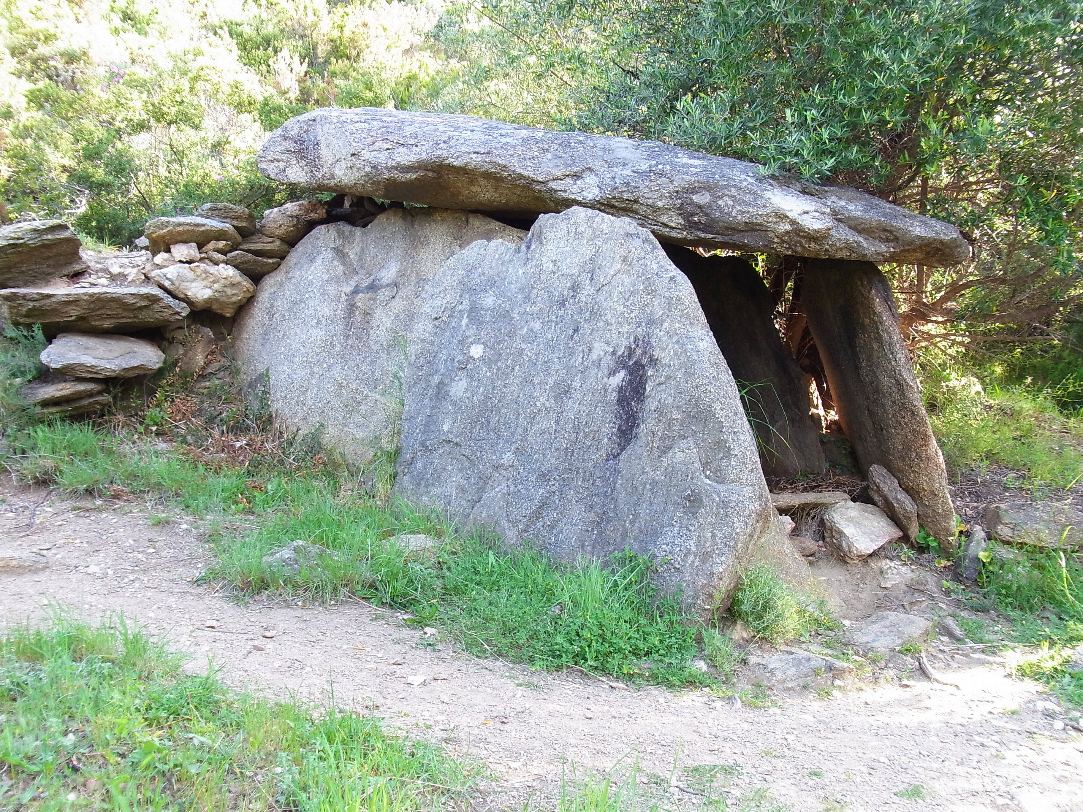 Dolmen 'Vinya del Rei' in Catalunia, Spain, South of Figueres near S.Pere de Rodes at 2011-04-19